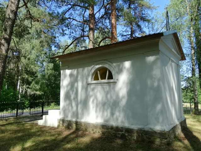 St. Ignatius Chapel, Pričiūnai, Vilnius District, Lithuania